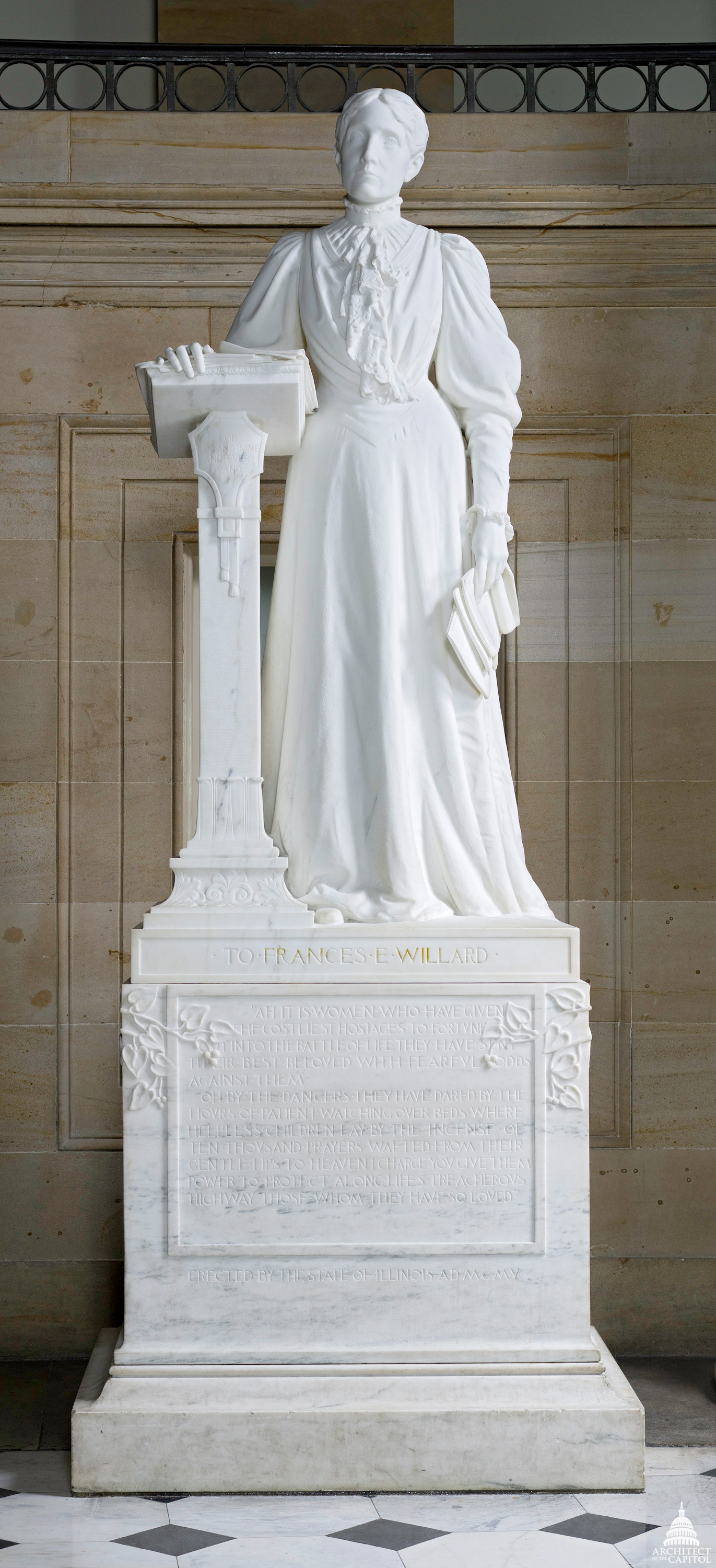 Frances E. Willard (1839-1898) Illinois Marble by Helen Farnsworth Mears Given in 1905 National Statuary Hall U.S. Capitol For more information on this statue that is part of the National Statuary Hall Collection in the U.S. Capitol visit: This official Architect of the Capitol photograph is being made available for educational, scholarly, news or personal purposes (not advertising or any other commercial use). When any of these images is used the photographic credit line should read “Architect of the Capitol.” These images may not be used in any way that would imply endorsement by the Architect of the Capitol or the United States Congress of a product, service or point of view. For more information visit